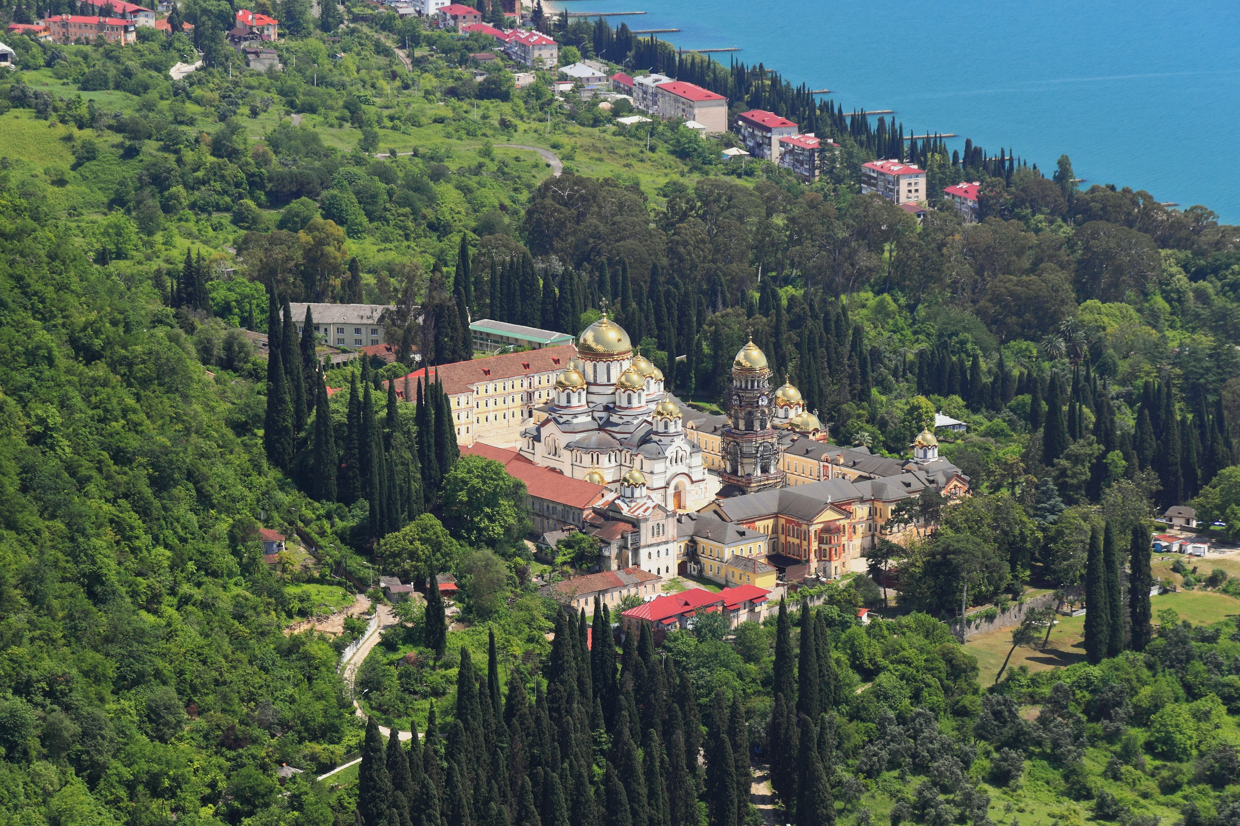 View from Anacopia fortress to the New Athos Monastery. New Athos, Gudauta District, Abkhazia.